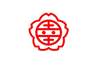 Flag of Satte Saitama